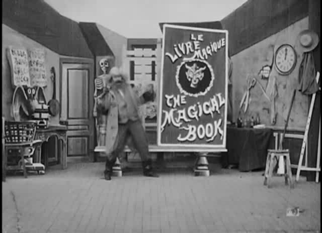 The magic Book (1900) by Georges Méliès